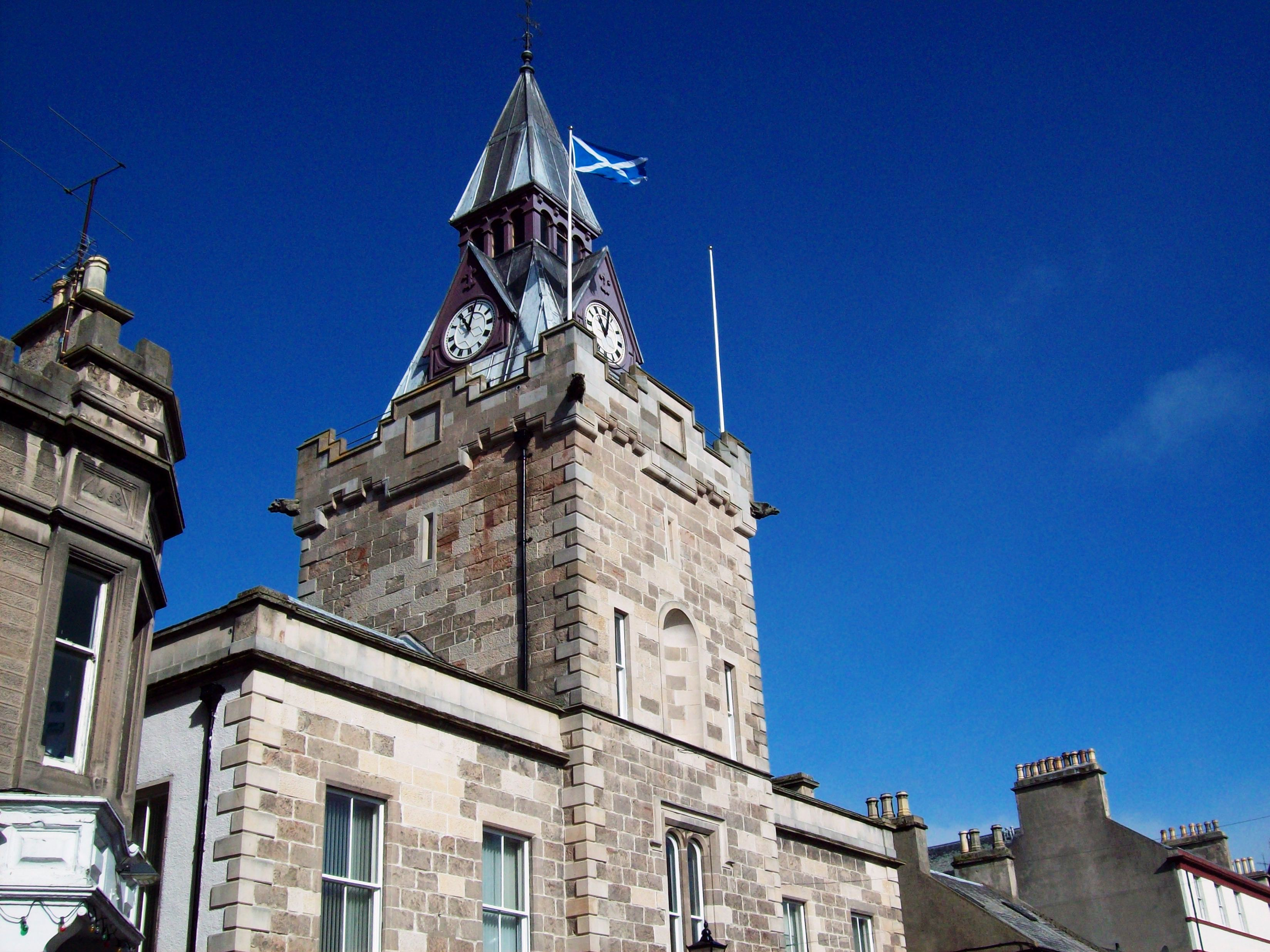 Town Hall, Nairn, Scotland